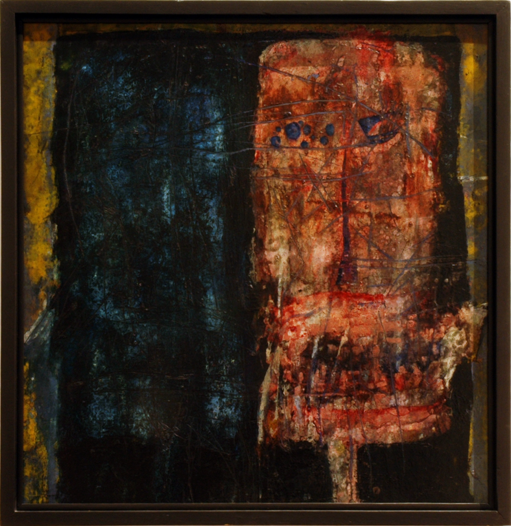 Painting by Jan Koblasa, False soprano, oil on canvas (1965)